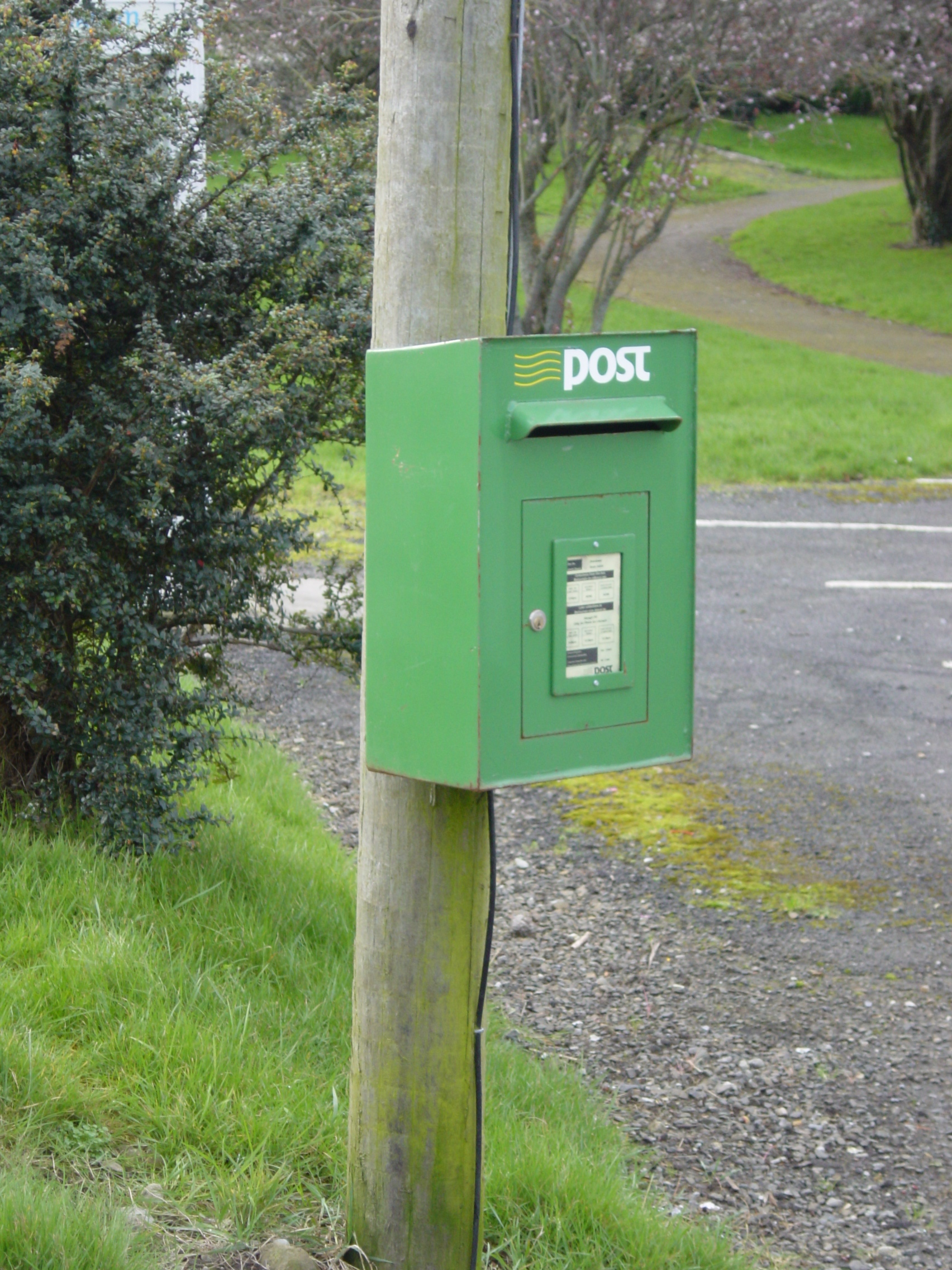 An Post postbox